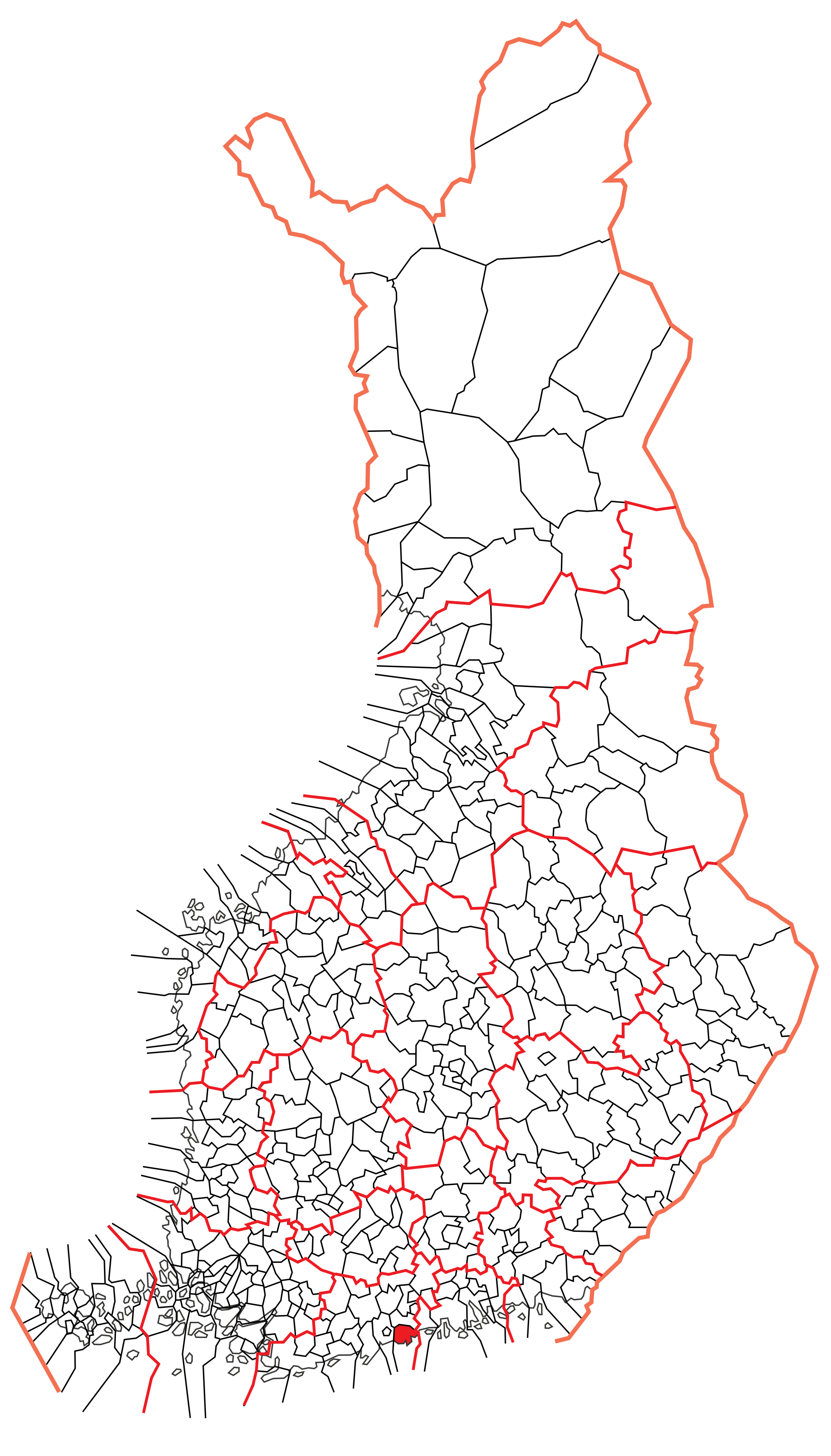 Location of Helsinki within Finland, very large map. Created by Ningyou